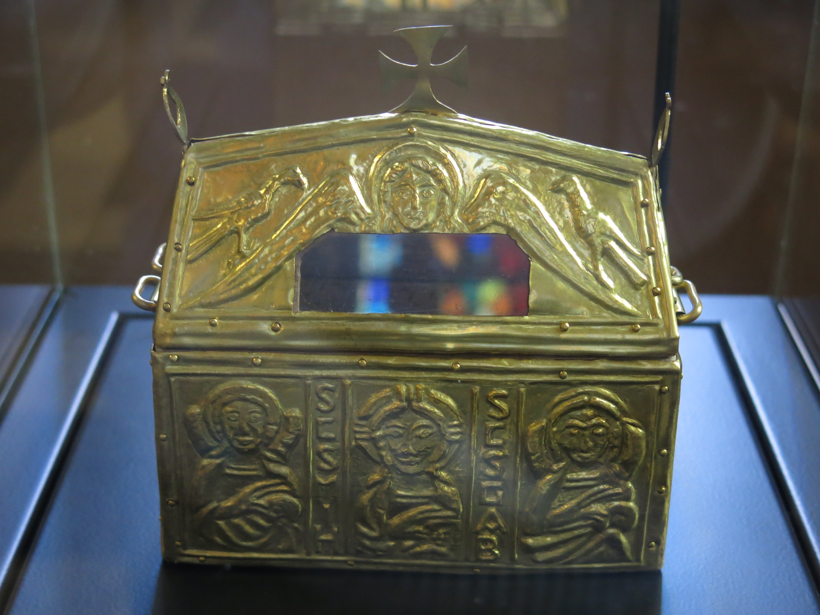 Chrismale of the collégiale Saint-Évroult in Mortain (Manche, France).